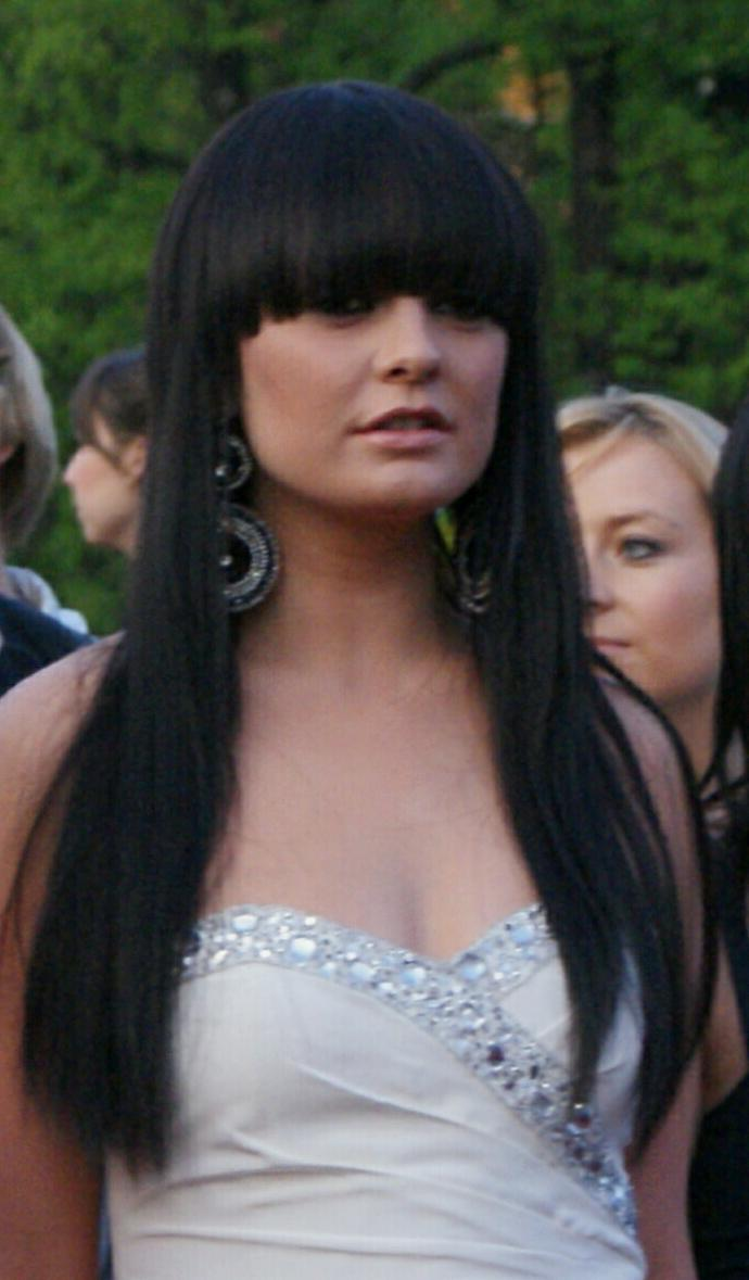 Sinéad Mulvey in Moscow, 2009